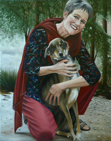 Portrait of Townend painted by artist Gerlinde Thomas for her 2014 exhibition Artists of the Blue Mountains